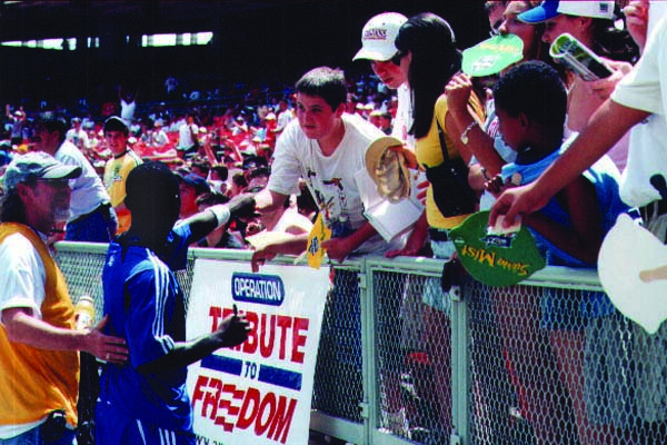 Original description: D.C. United player Freddy Adu signs autographs before the start of the 2004 Sierra Mist MLS All-Star Game